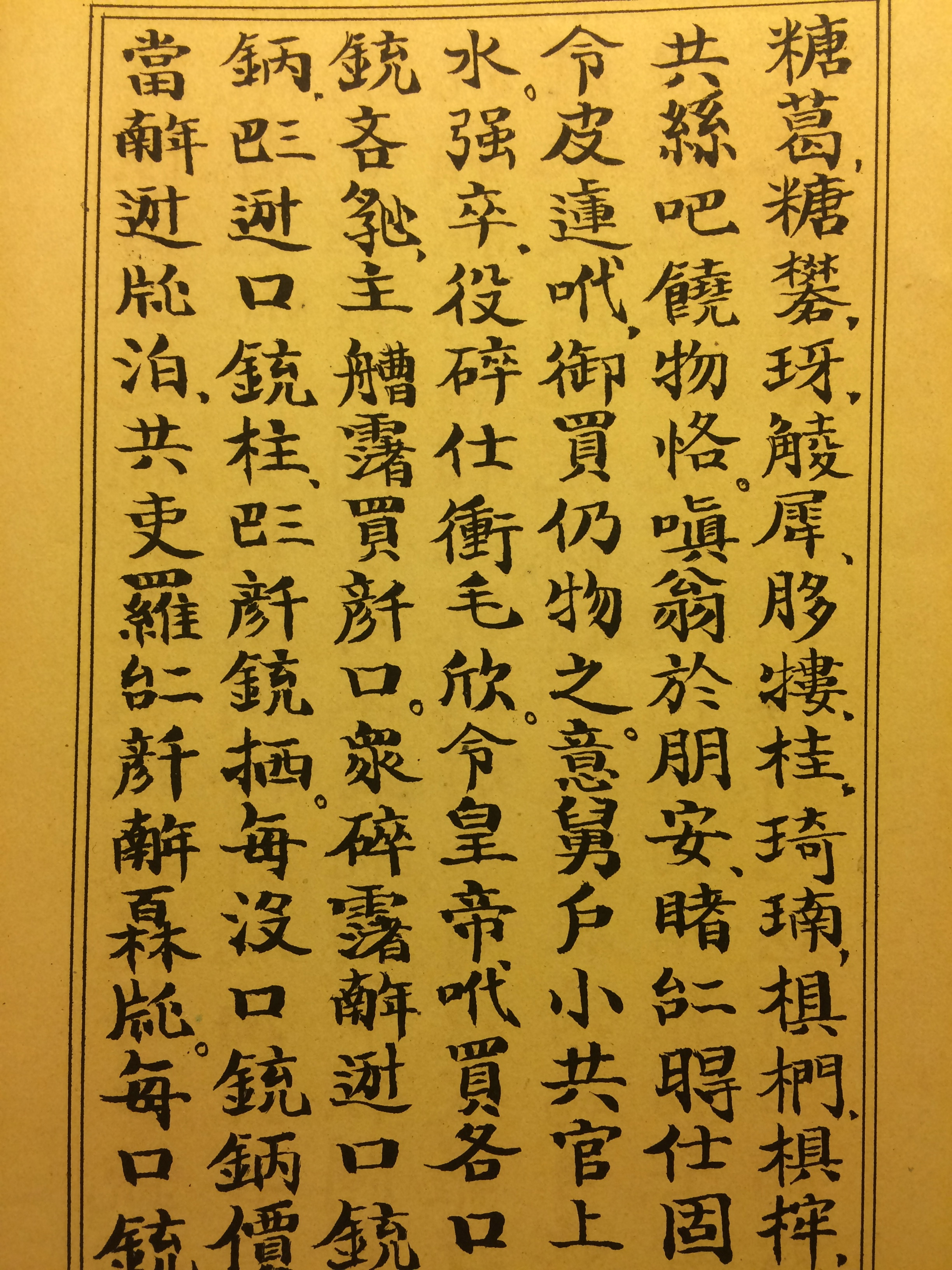 Excerpt of text in Nôm